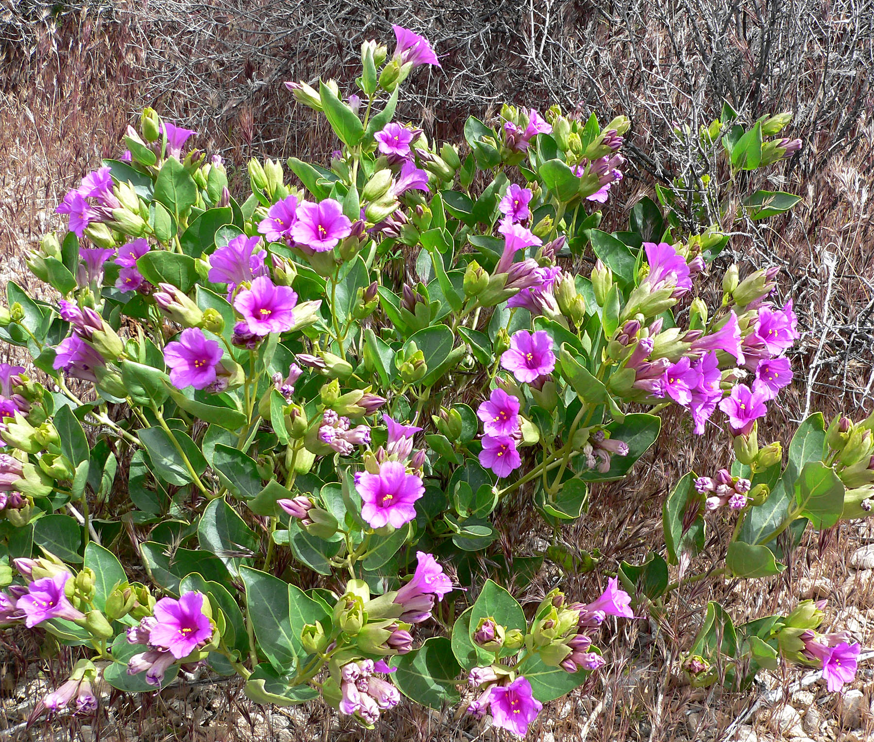 Photo of Mirabilis multiflora (giant four o'clock) in Red Rock Canyon, Nevada